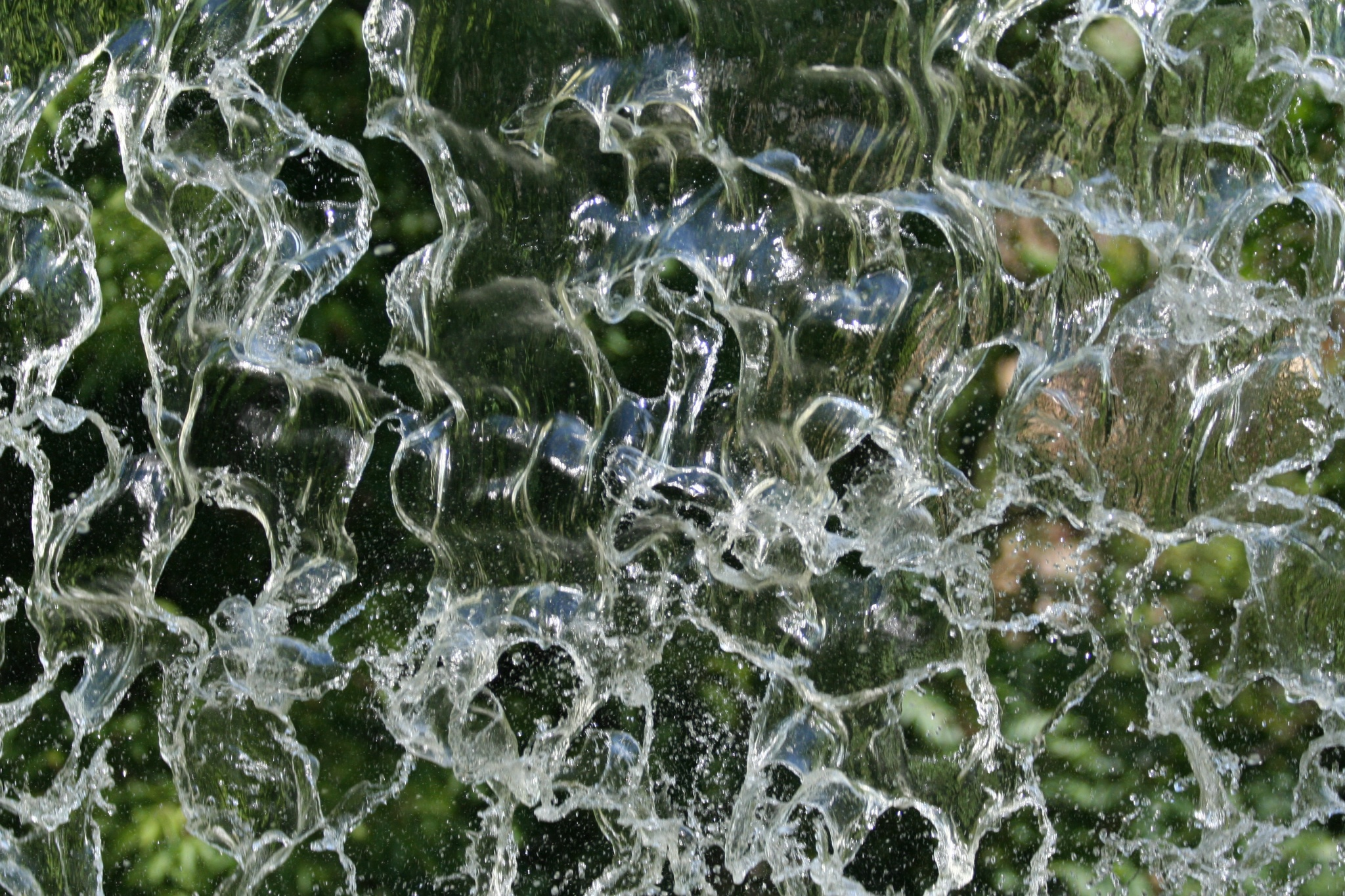 A waterfall taken with a very fast shutter speed (1/2000th sec). Taken at the Toronto Zoo with a Canon EOS 350D & 70-300mm f4-5.6 IS USM lens. – Ber'Zophus